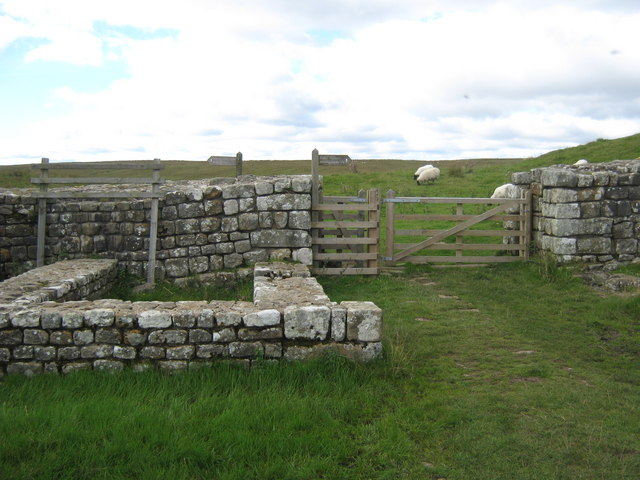 Hadrian's Wall at the Knag Burn northeast of Housesteads Fort